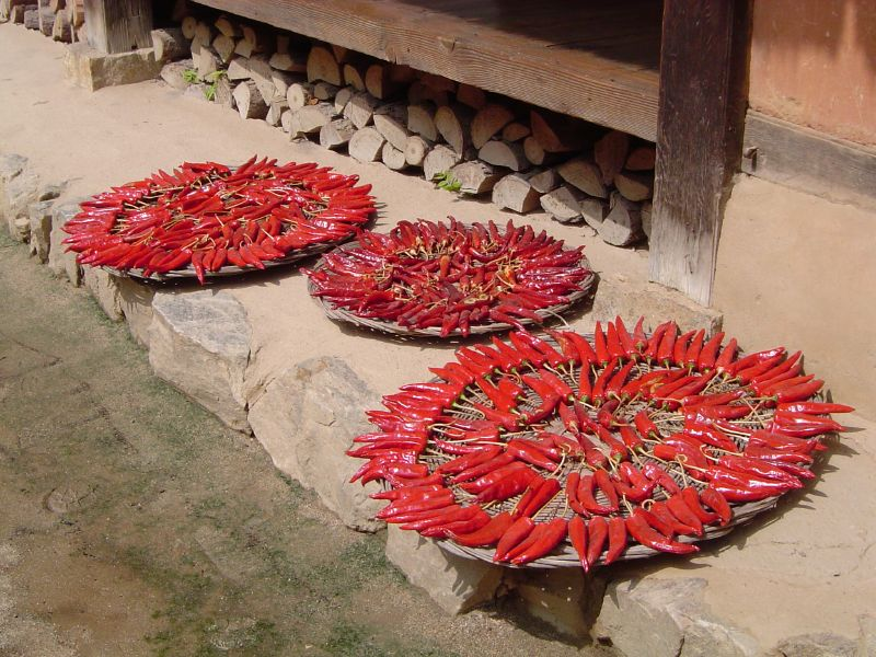 Red peppers in Korean Folk Village (Minsokchon), Suwon, Kyyonggi-do, Korea